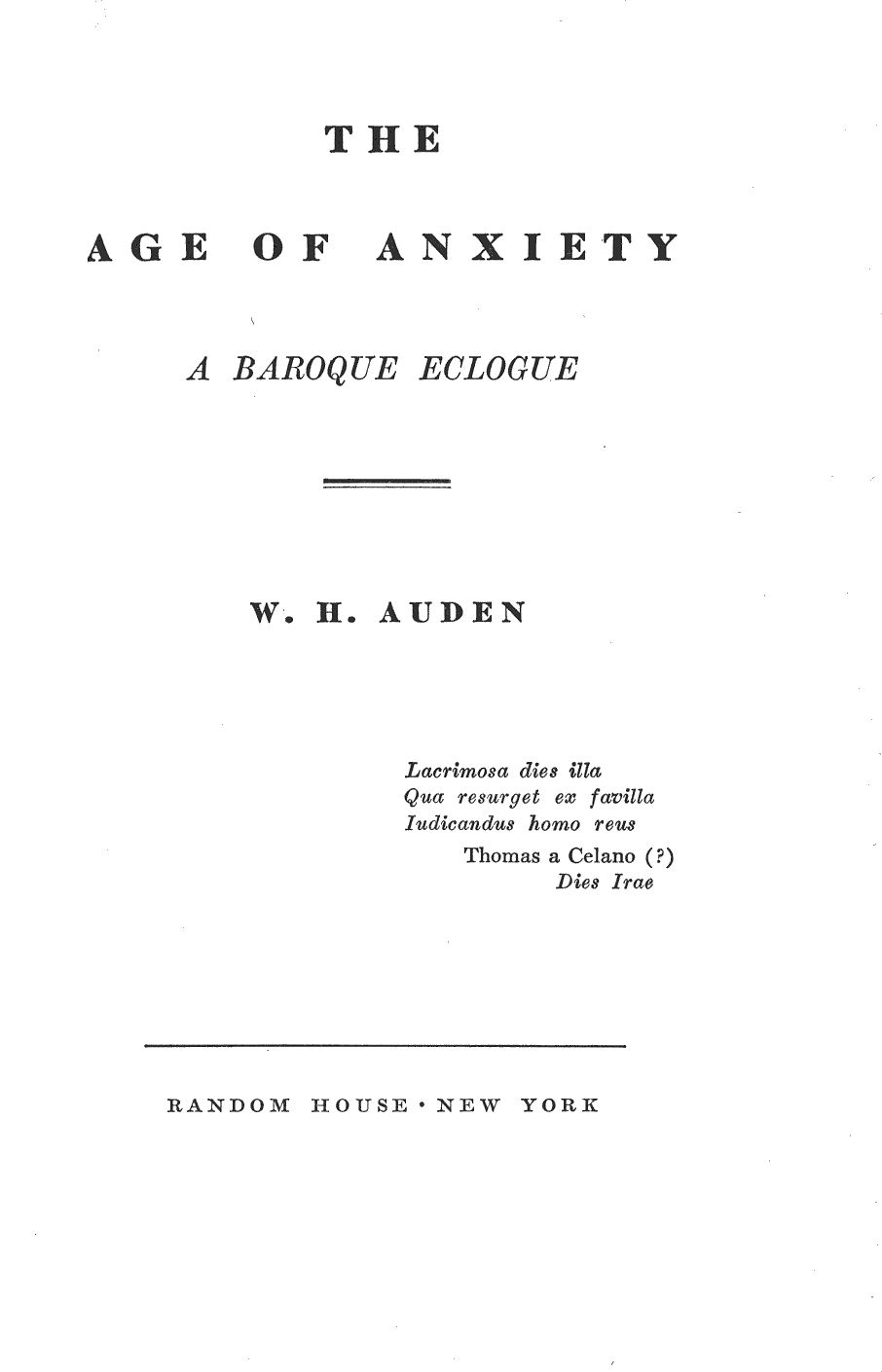 Title page of W. H. Auden, The Age of Anxiety, 1947.